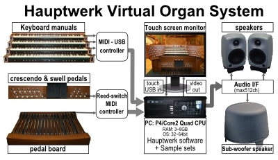 A flat-screen computer display File:Dell Optiplex 745 flat.JPG A Dell Optiplex 745 CPU laid flat. File:Genelec 6010A & 5040A.jpg Genelec booth at IBC 2009. Genelec 6010A Genelec 5040A